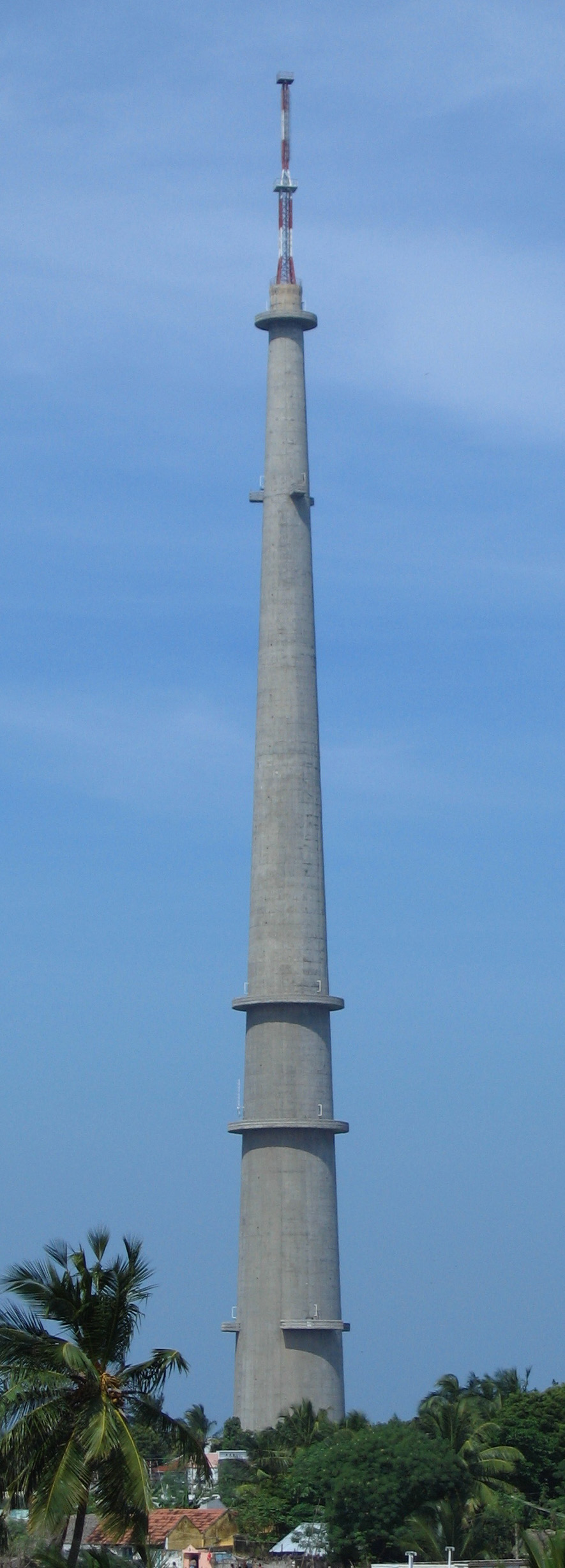 Rameswaram TV Radio Tower - ഇന്ത്യയിലെ ഏറ്റവും ഉയരമുള്ള നിര്‍മ്മിതി